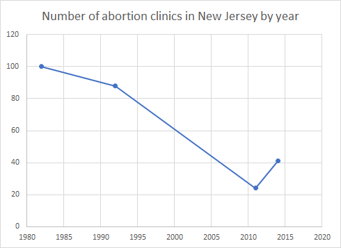 Number of abortion clinics in New Jersey by year. Data is from articles linked at